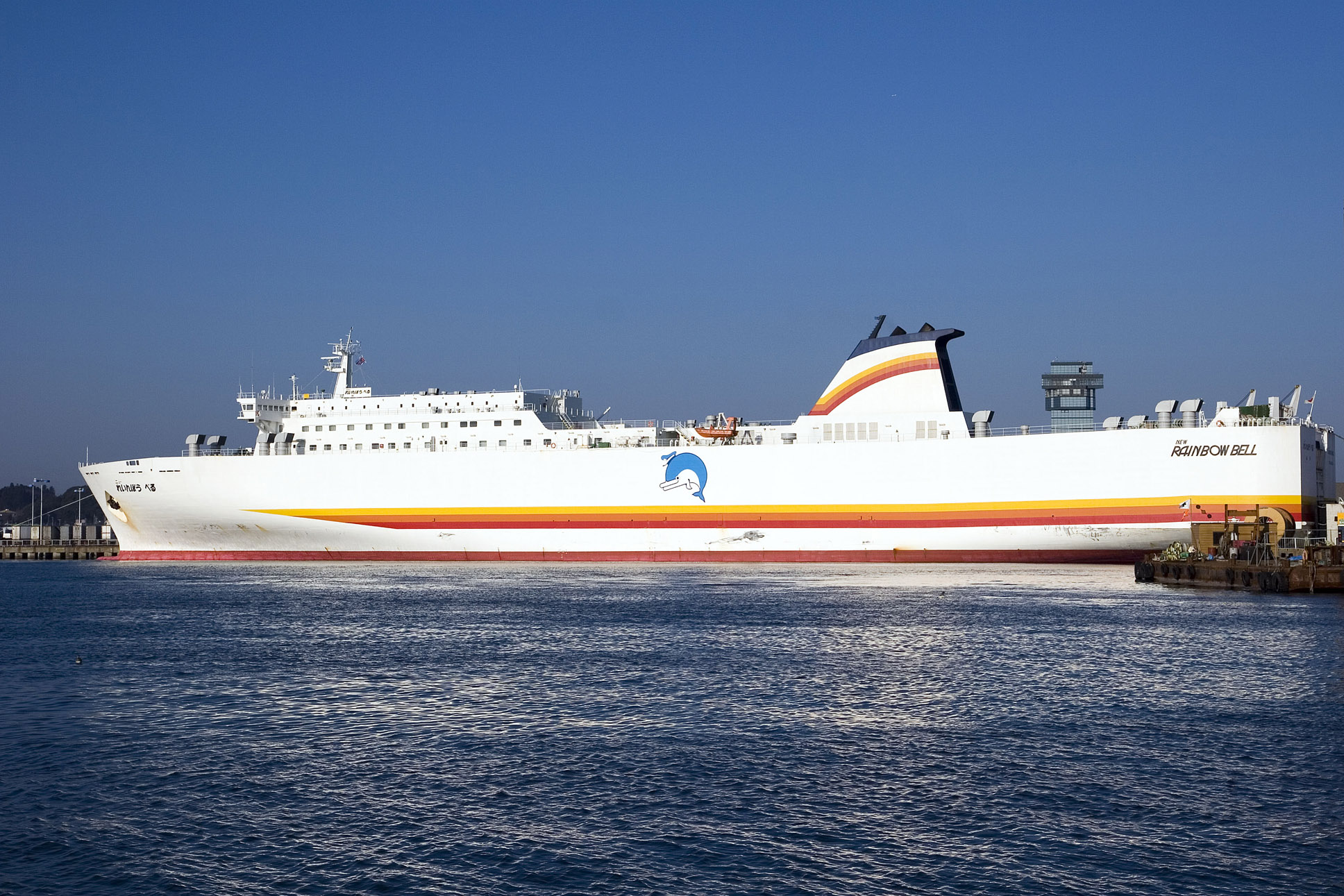 The Higashinihon Nihon ferry New Rainbow Bell.